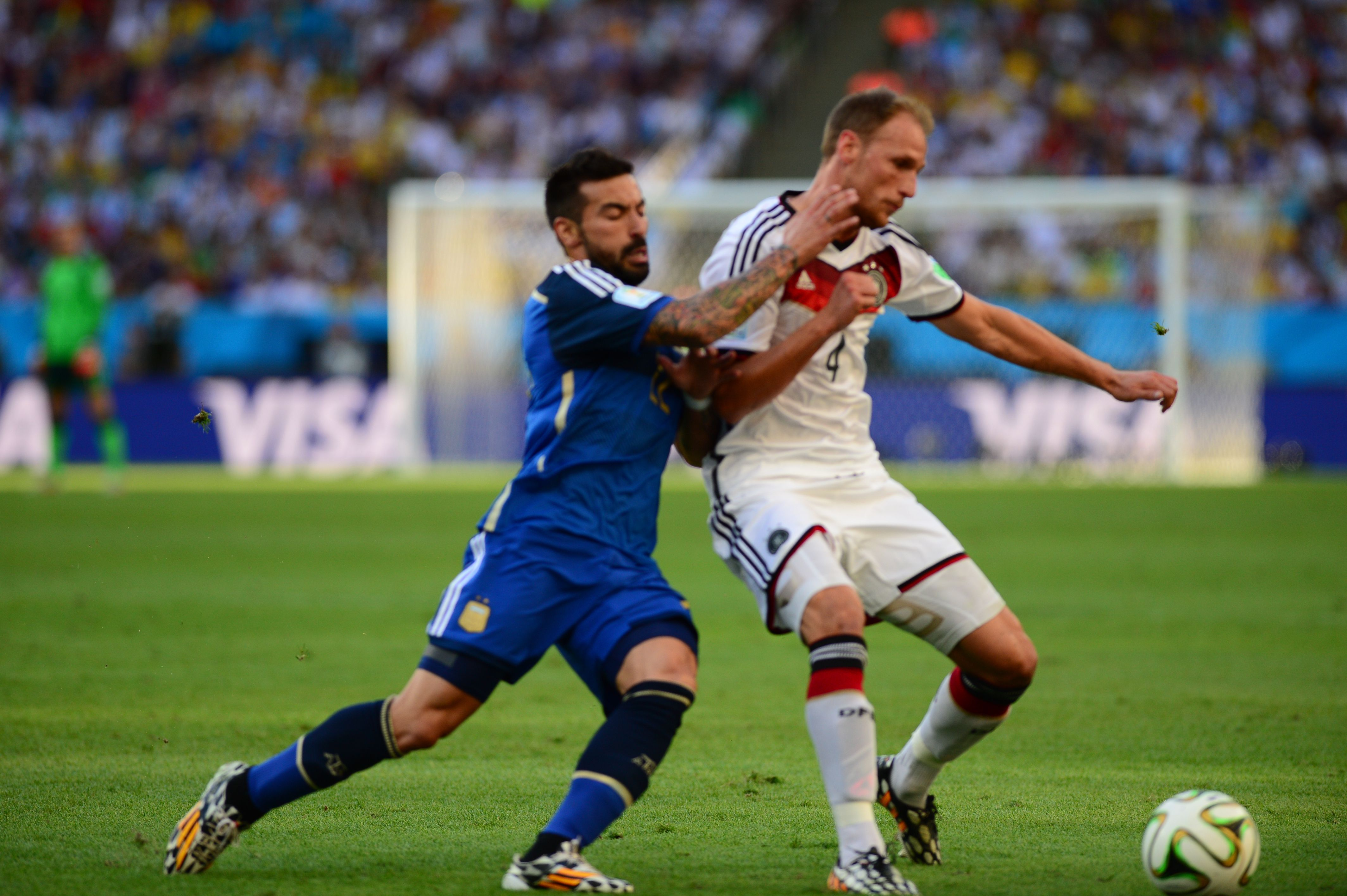 Germany and Argentina face off in the final of the World Cup